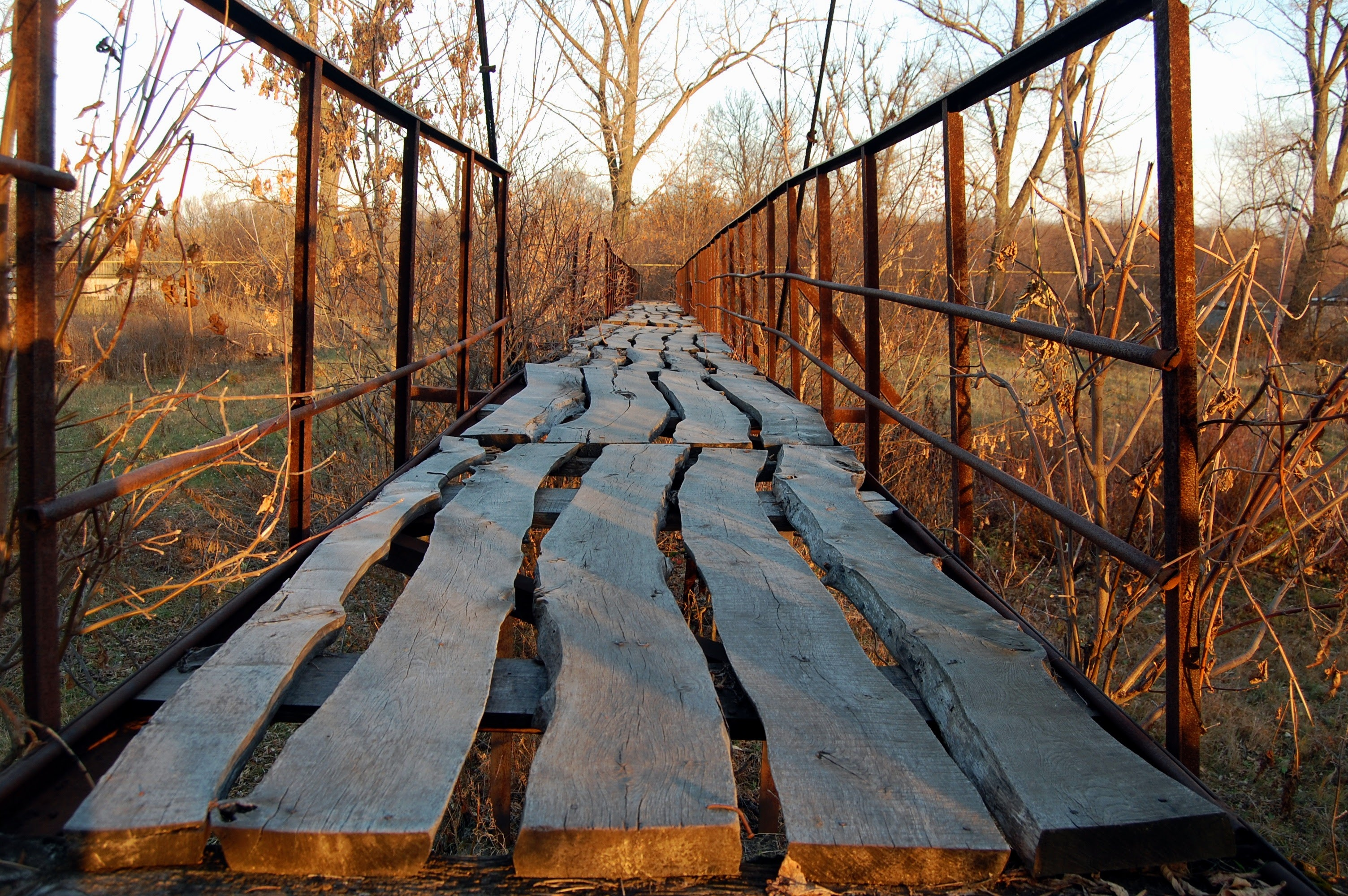 Bridge over Borova river